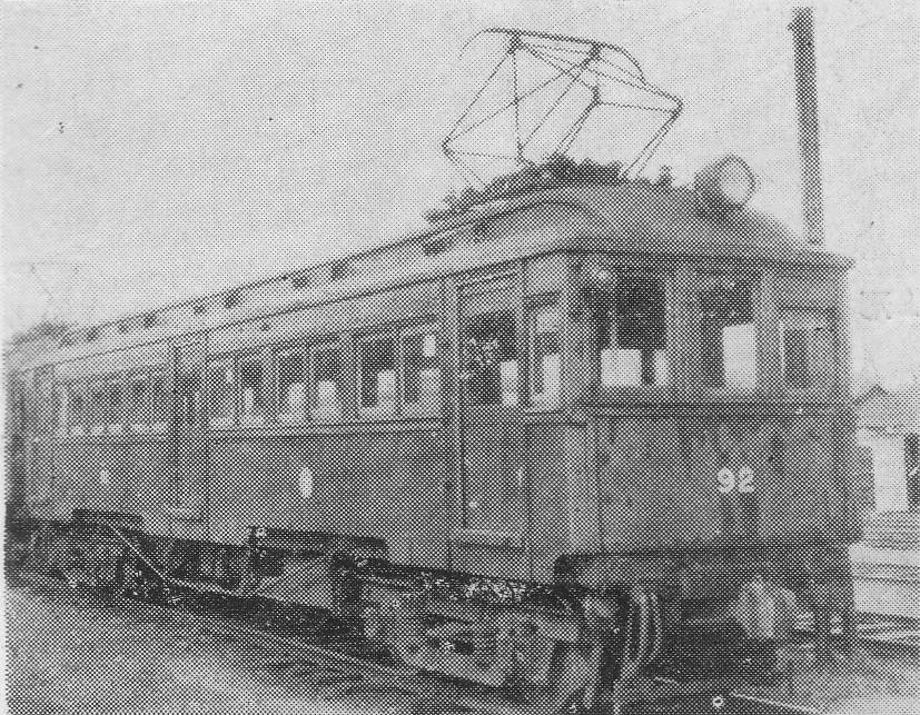 Hankyu Railway 90 Series EMU #92